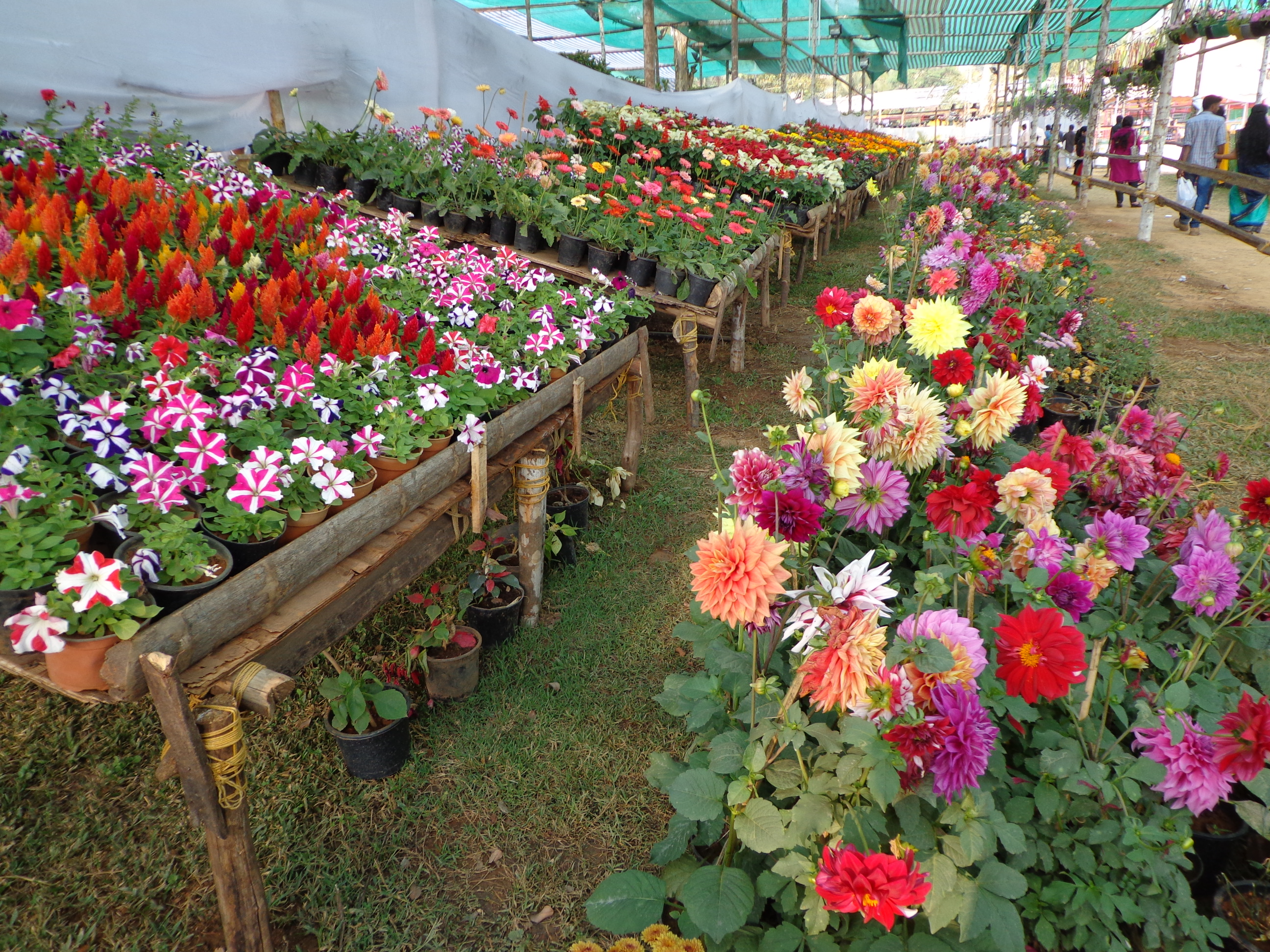 Picture from the Wayanad Flower Show held at Kalpetta in December 2013.